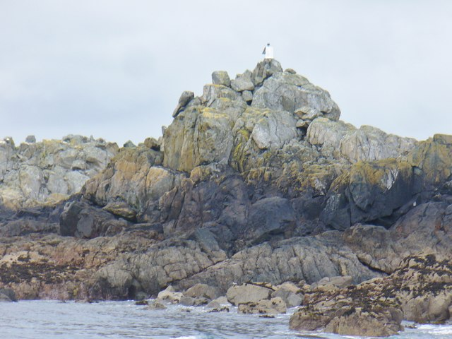 Rocky islet at the northern tip of Sark, in the Channel Islands